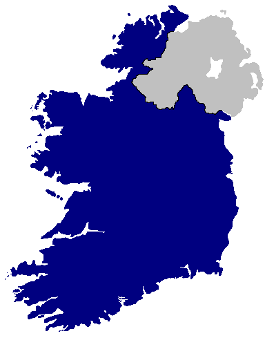 Map of Irish Police area